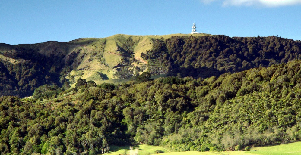 Kamai Ranges, New Zealand. KaimaiPICT6700.jpg - photo taken and uploaded by Paul Moss, Photographer, Artist, Paul Moss Photographer Artist NZ